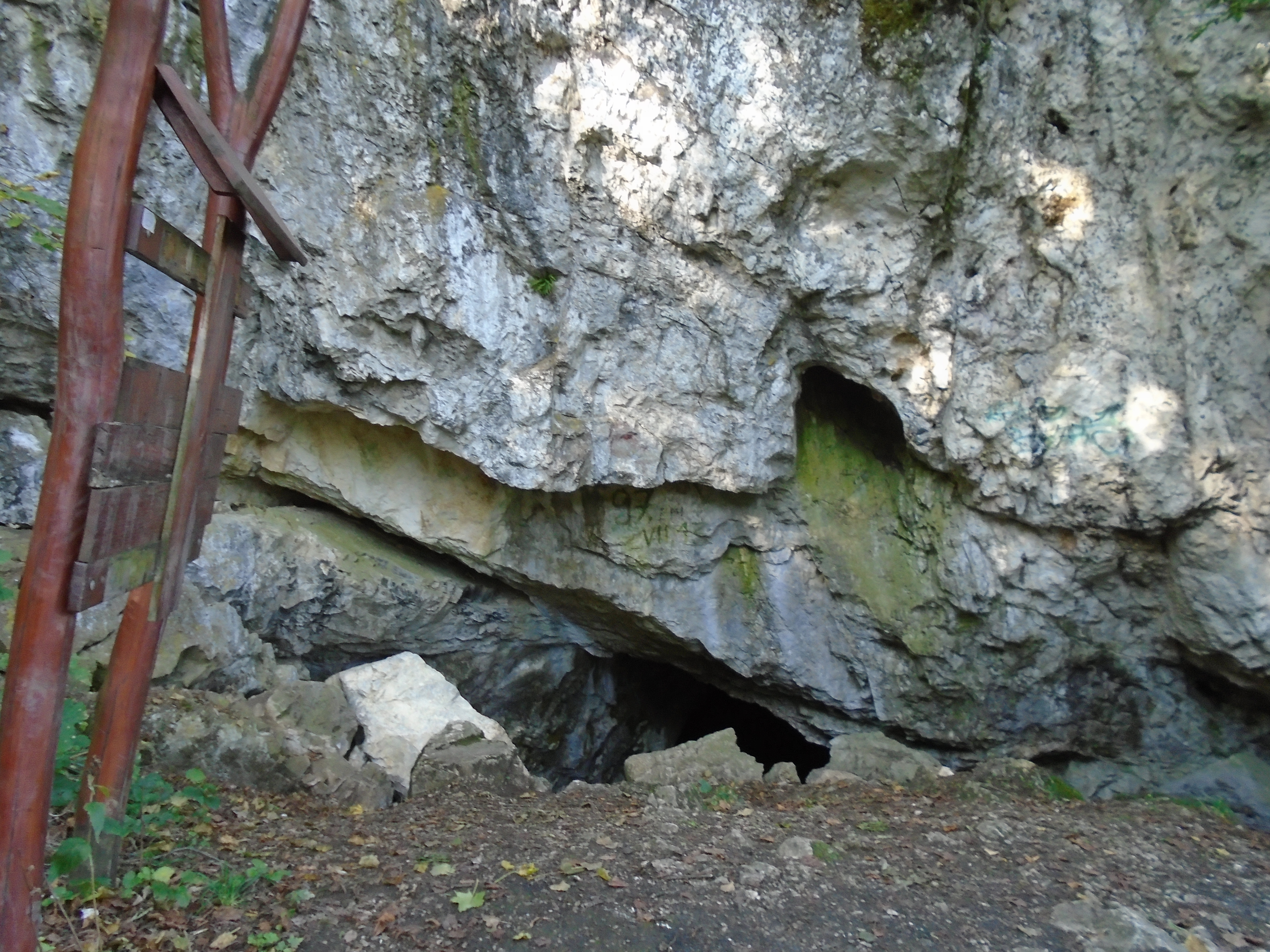 Entrance of Násznép Cave.